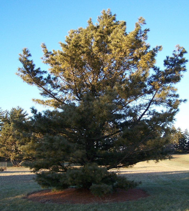 Pinus koraiensis (Korean Pine). Morton Arboretum accession 748-56*2